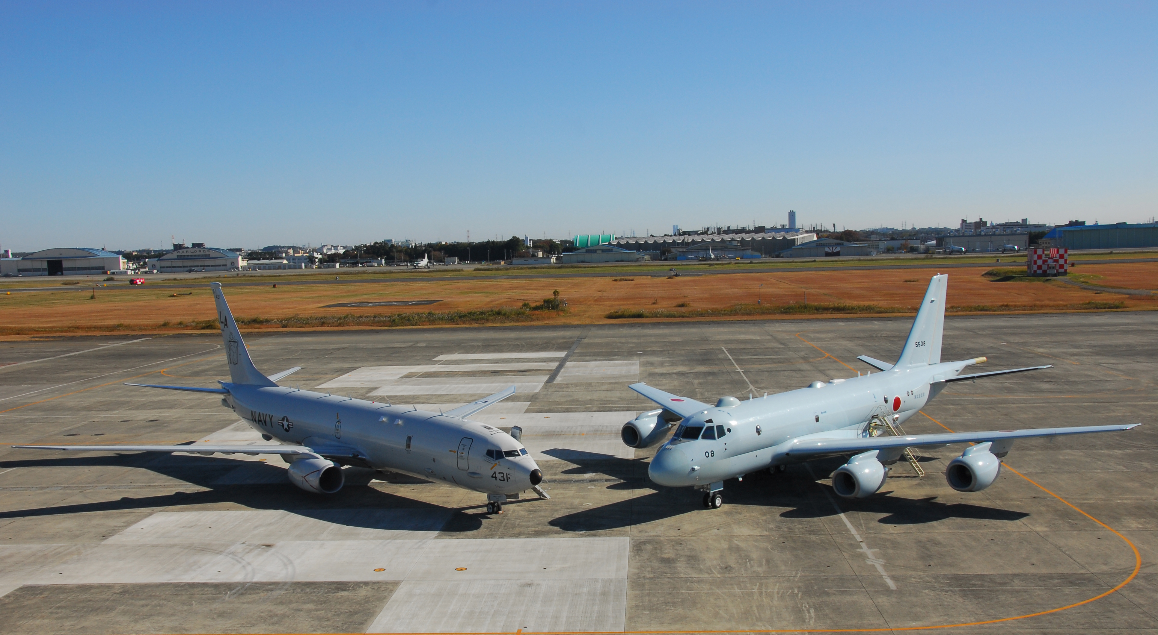 A U.S. Navy Boeing P-8A Poseidon assigned to Patrol Squadron (VP) 5 "Mad Foxes" is on display next to the newest maritime patrol asset of the Japan Maritime Self-Defense Force, the Kawasaki P-1, at Naval Air Facility Atsugi, Japan. VP-5 is forward deployed to the U.S. 7th Fleet area of responsibility conducting theater anti-submarine warfare operations and joint interoperability efforts with the Japan Maritime Self-Defense Force.